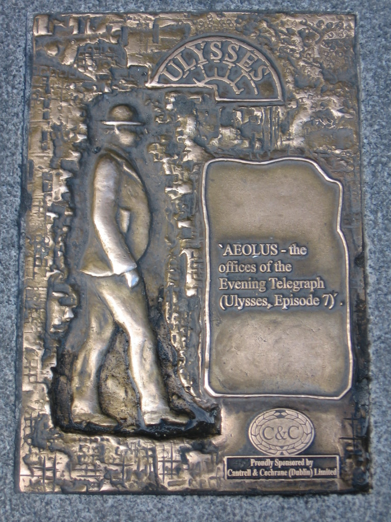 Ulysses Plaque Dublin, episod 7. Aeolus